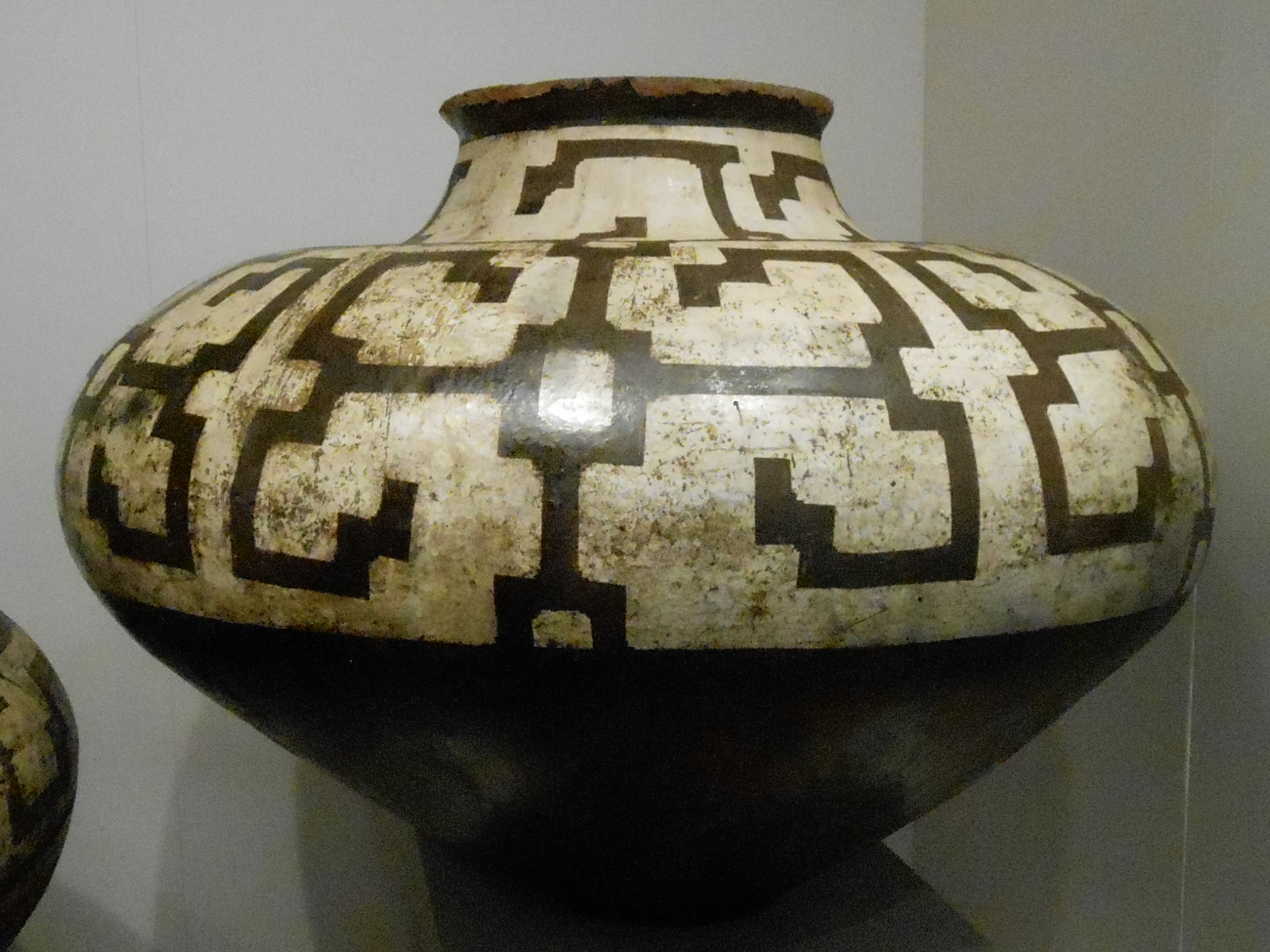 Masato chomo (beer jar, Shipibo-Conibo, N E Peru), World Museum Liverpool, England. 19th century.